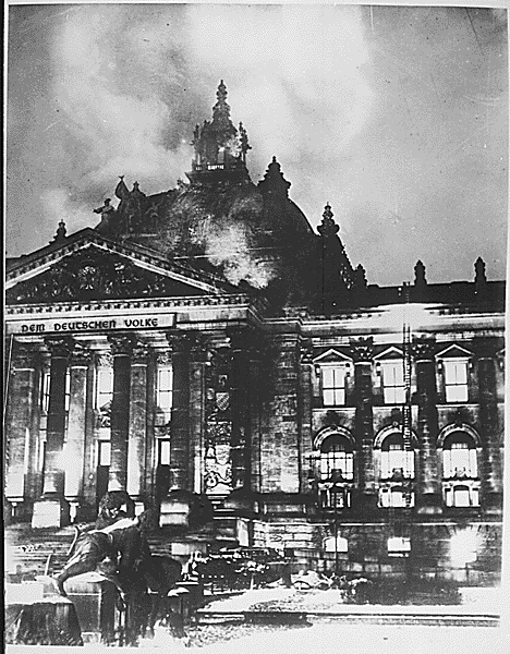 Firemen work on the burning Reichstag